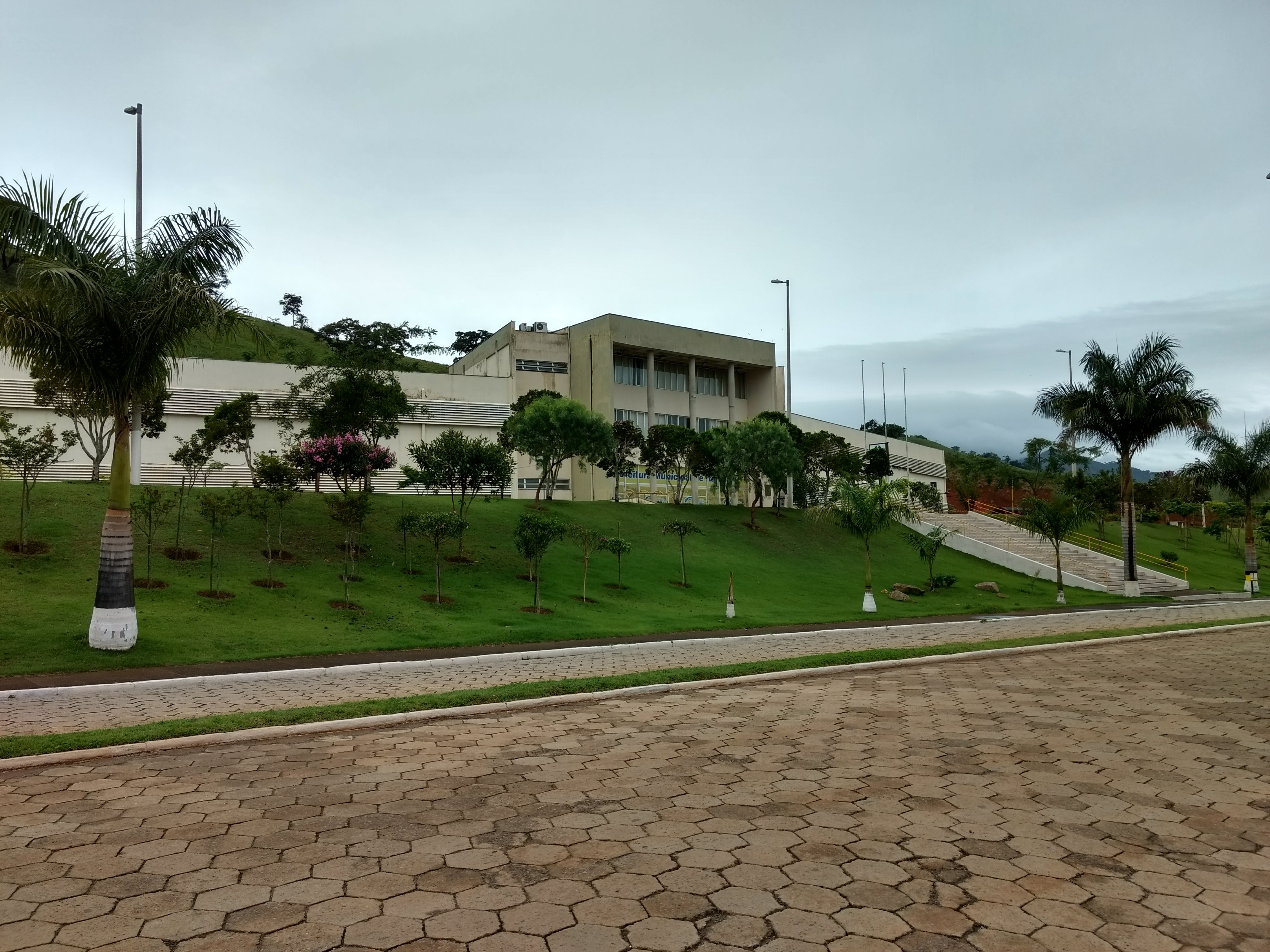 City hall of Itajubá, Minas Gerais, Brazil